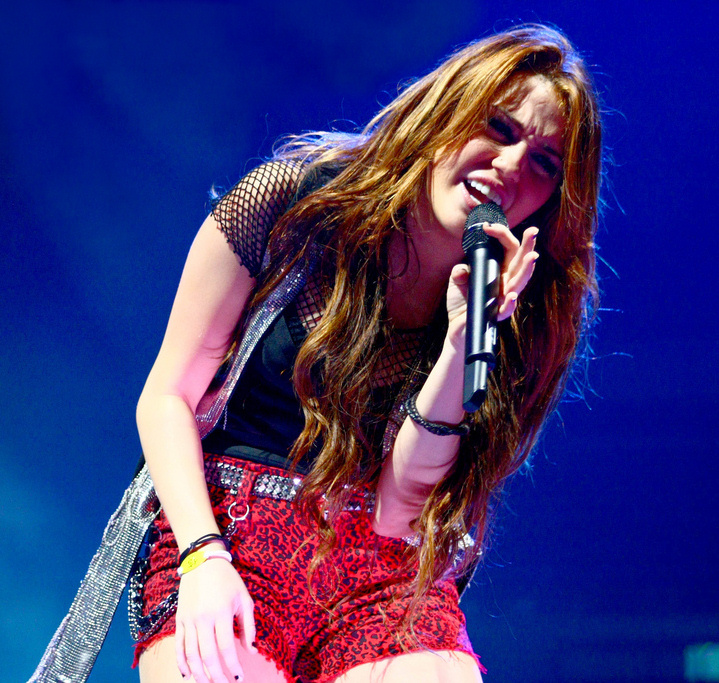 Miley Cyrus during the wonder world Concert in Detroit, Michigan.